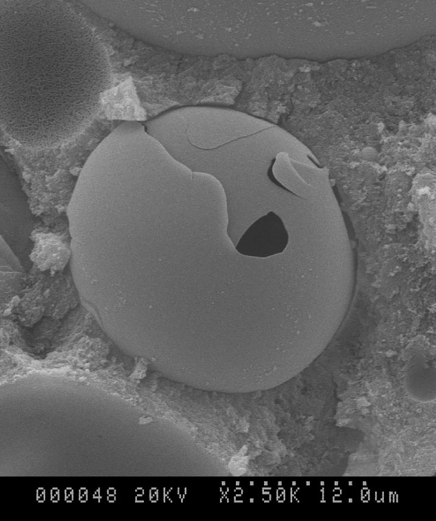 Scanning Electron Micrograph of a Broken 3M S15 Glass Microsphere in a Lightweight Portland Cement Concrete. Micrography taken by me, Lyle Gordon. Use for whatever you like...let me know if you do use it. Originally produced for University of Toronto Concrete Canoe Team research.